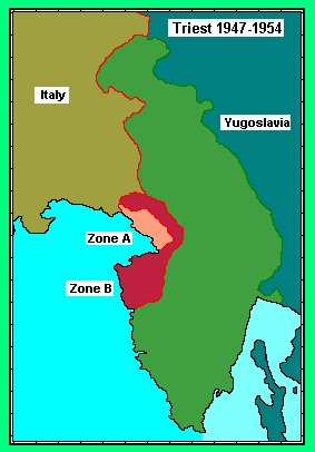 Map of the Free Territory of Trieste, 1947-1954.